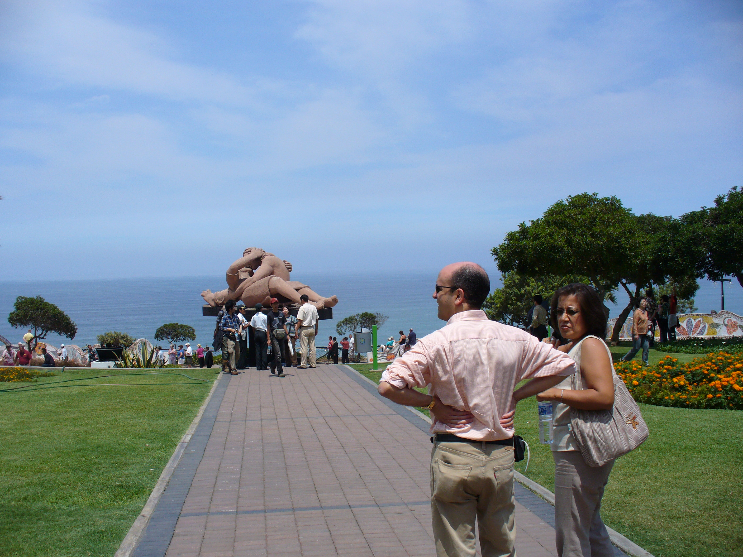 Tourists enjoying Love Park in Lima, Peru, with the statue el beso by Victor Delfín in the background